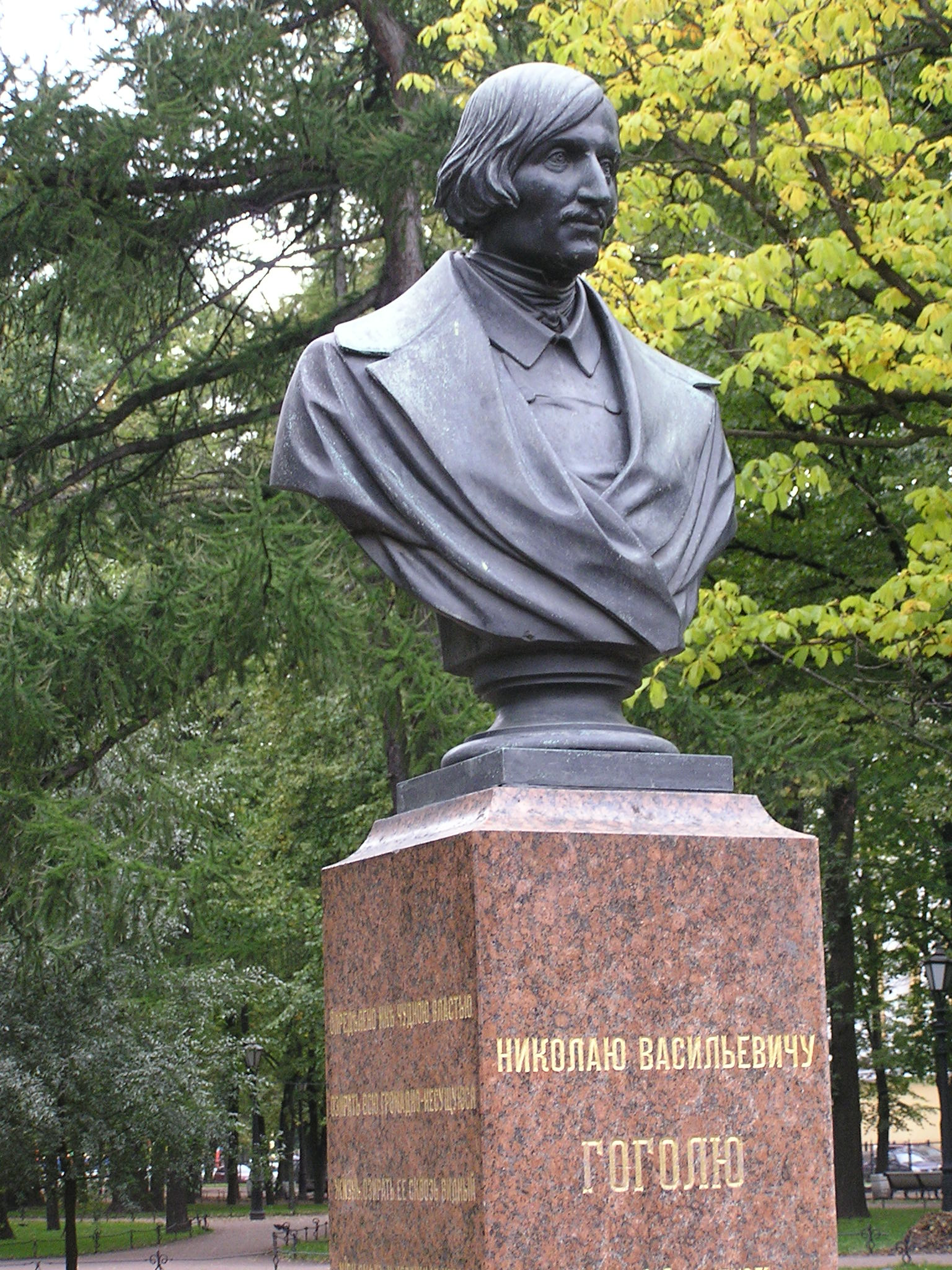 Saint Petersburg (Russia), Russian Admiralty, Bust of Nikolai Gogol.